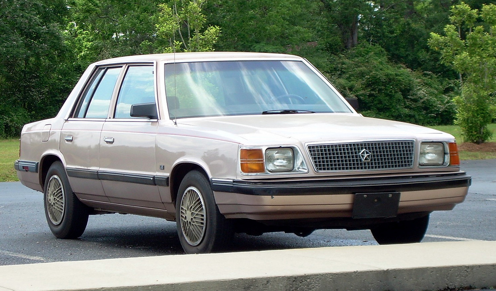 1985-89 Plymouth Reliant K LE